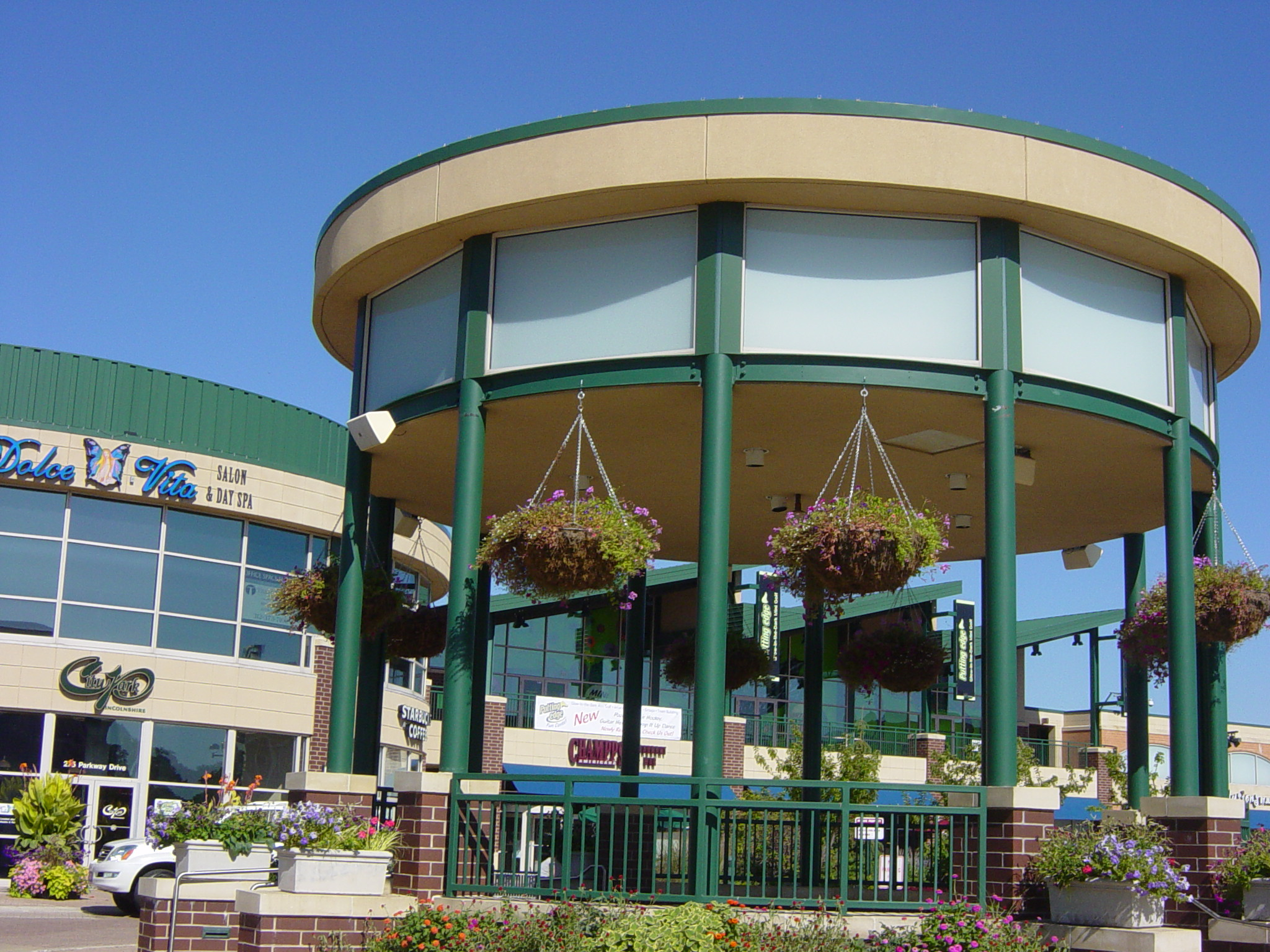 A photo of the City Park commercial area, located in Lincolnshire, Illinois.